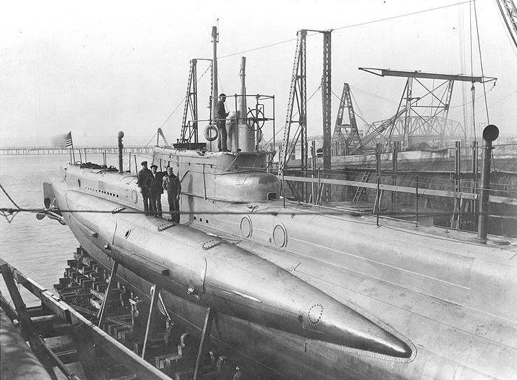 A cropped photograph of the USS G-3 during construction in the Lake Torpedo Boat Company shipyard, Bridgeport, Connecticut, 9 December 1915.